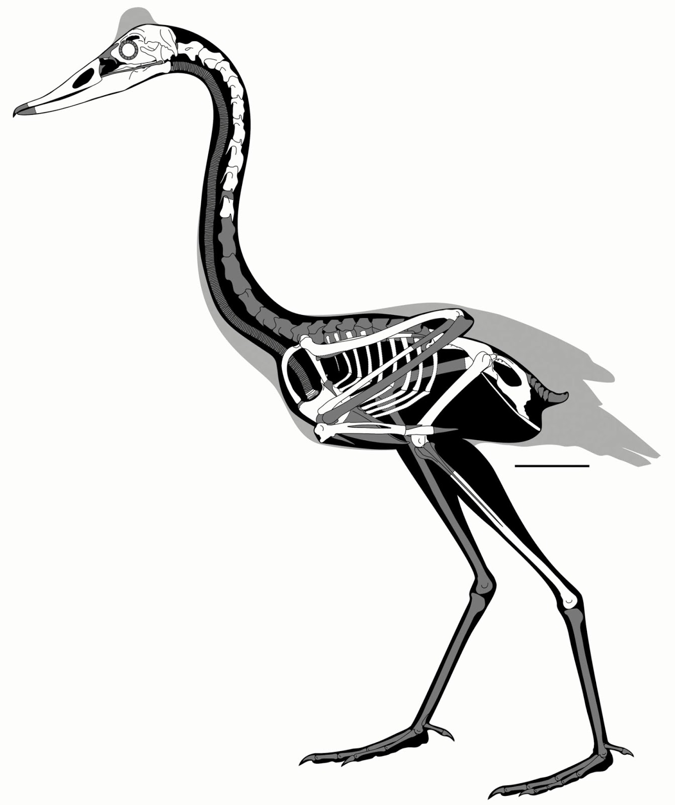 Skeletal reconstruction of Conflicto antacricus from Tambussi et al.